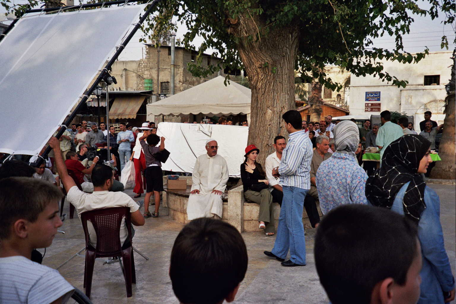 in a square in the middle of the christian quarter, a russian film crew was filming. the movie will be called skaloloska ("the climber")